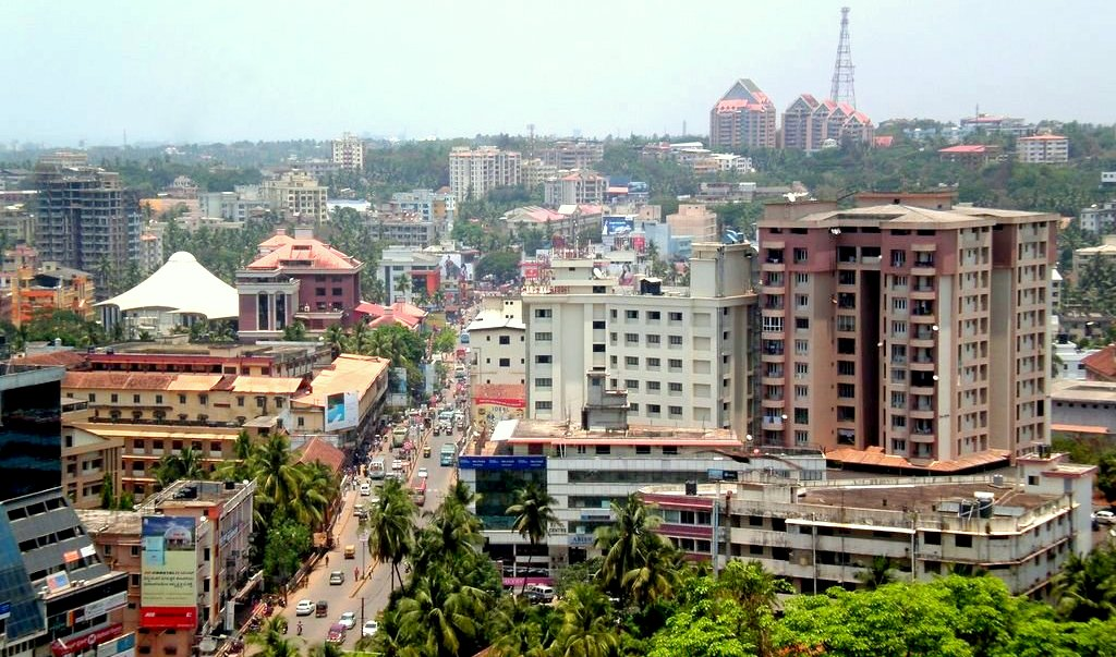 Mangalore Listen/ˈmæŋɡəlɔr/ (also called Kuḍla in Tulu, Maṅgaḷūru in Kannada, Koḍiyāl in Konkani, or Maikāla in Beary bashe) is the chief port city of the Indian state of Karnataka. It is located about 350 kilometres (220 mi) west of the state capital, Bangalore. Mangalore lies between the Arabian Sea and the Western Ghat mountain ranges, and is the administrative headquarters of the Dakshina Kannada (formerly South Canara) district in south western Karnataka. Mangalore derives its name from the local Hindu Goddess Mangaladevi. It developed as a port on the Arabian Sea—remaining, to this day, a major port of India. Lying on the backwaters of the Netravati and Gurupura rivers, Mangalore is often used as a staging point for sea traffic along the Malabar Coast. The city has a tropical climate and lies in the path of the Arabian Sea branch of the South-West monsoons. Mangalore's port handles 75 per cent of India's coffee exports and the bulk of the nation's cashew exports. Mangalore was ruled by several major powers, including the Kadambas, Vijayanagar dynasty, Chalukyas, Rashtrakutas, Hoysalas, and the Portuguese. The city was a source of contention between the British and the Mysore rulers, Hyder Ali and Tipu Sultan. Eventually annexed by the British in 1799, Mangalore remained part of the Madras Presidency until India's independence in 1947. The city was unified with the state of Mysore (now called Karnataka) in 1956. Mangalore is demographically diverse with several languages, including Tulu, Konkani, Kannada, and Beary bashe commonly spoken, and is the largest city of Tulu Nadu region. The city's landscape is characterised by rolling hills, coconut palms, freshwater streams, and hard red-clay tiled-roof buildings. In an exercise carried out by the Urban Development Ministry under the national urban sanitation policy, Mangalore was placed as the eighth cleanest city in the country. In Karnataka, it is second after Mysore.